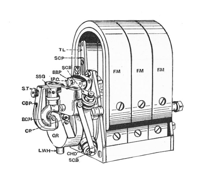 Simms-Bosch magneto (Rankin Kennedy, Electrical Installations, Vol II, 1909).jpg